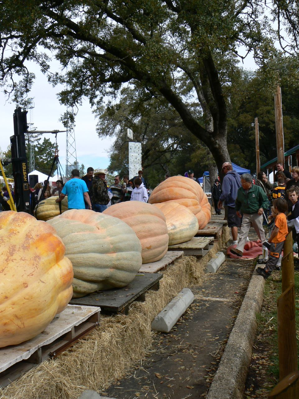 Giant pumpkin weighoff in California, United States.